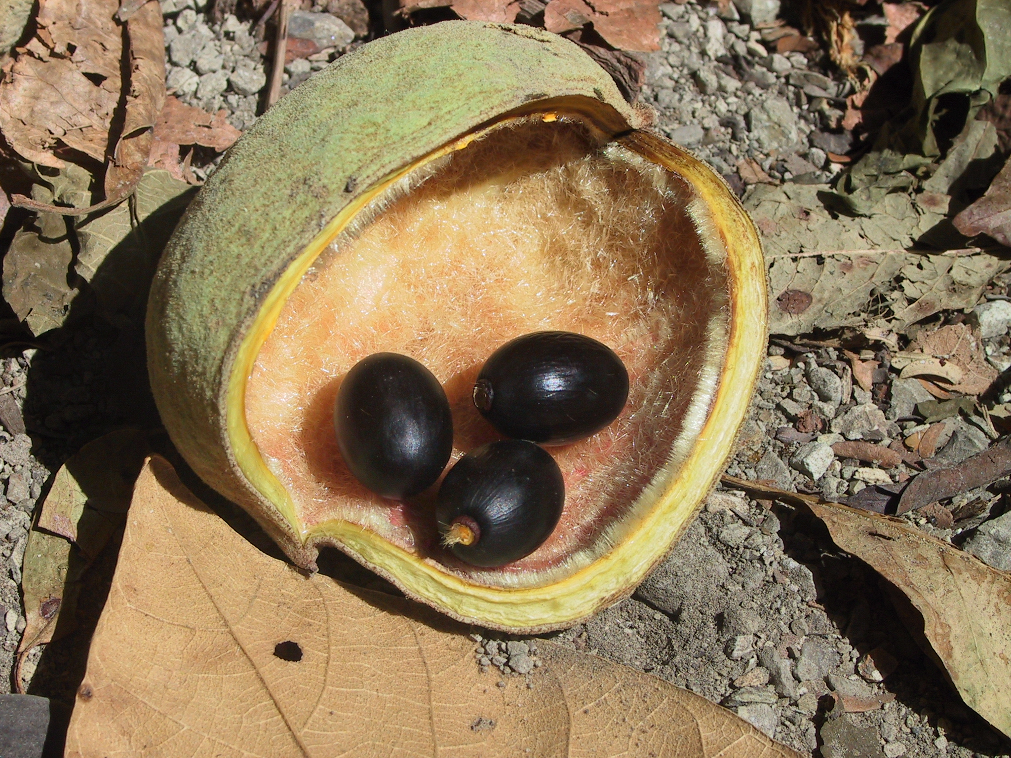 'Sterculia apetala' ("Panama Tree"), fruit capsule, Costa Rica, peninsula Nicoya, Cabo-Blanco